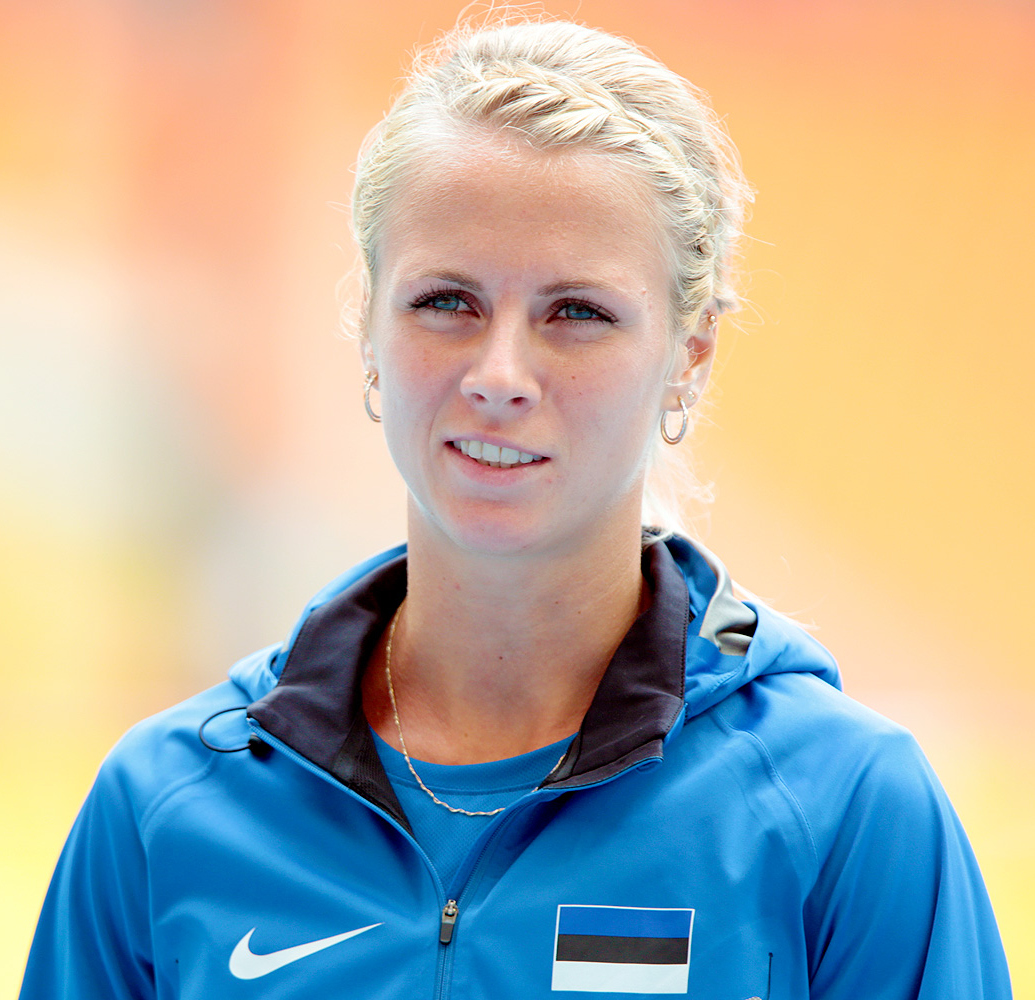 Grit Sadeiko in 2013 World Championships in Athletics